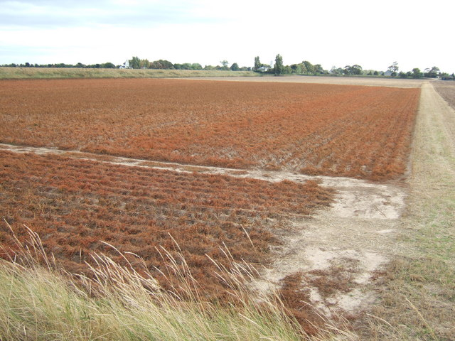 Potatoes awaiting harvest A field of potatoes north of the two lighthouses on the mouth of the River Nene. The disused lighthouses can be seen in the distance.